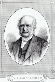 Rev William Wilson of Dundee c.1860